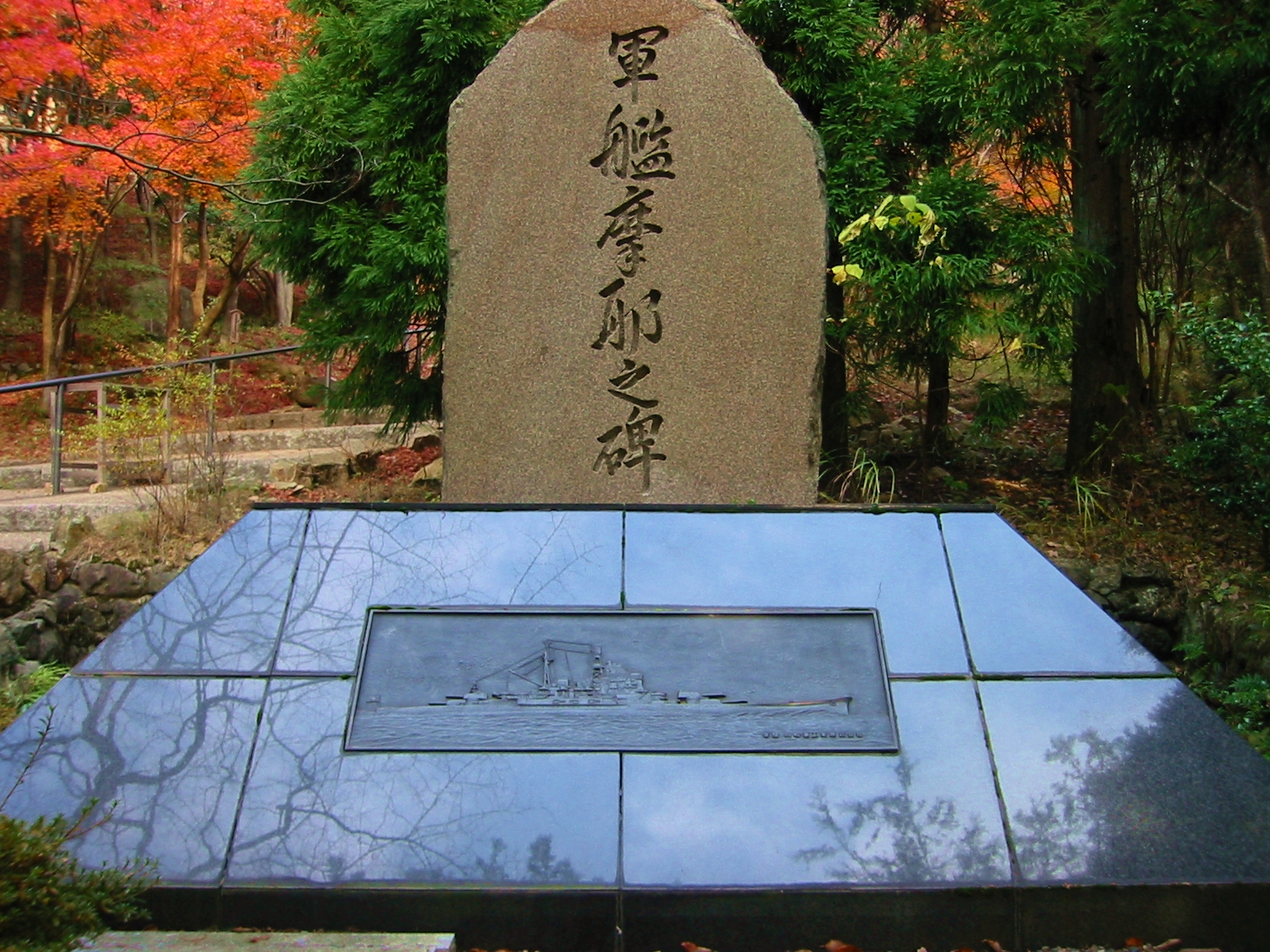 Memorial of Japanese cruiser Maya at Tōri Tenjō-ji temple in Kōbe, Hyōgo